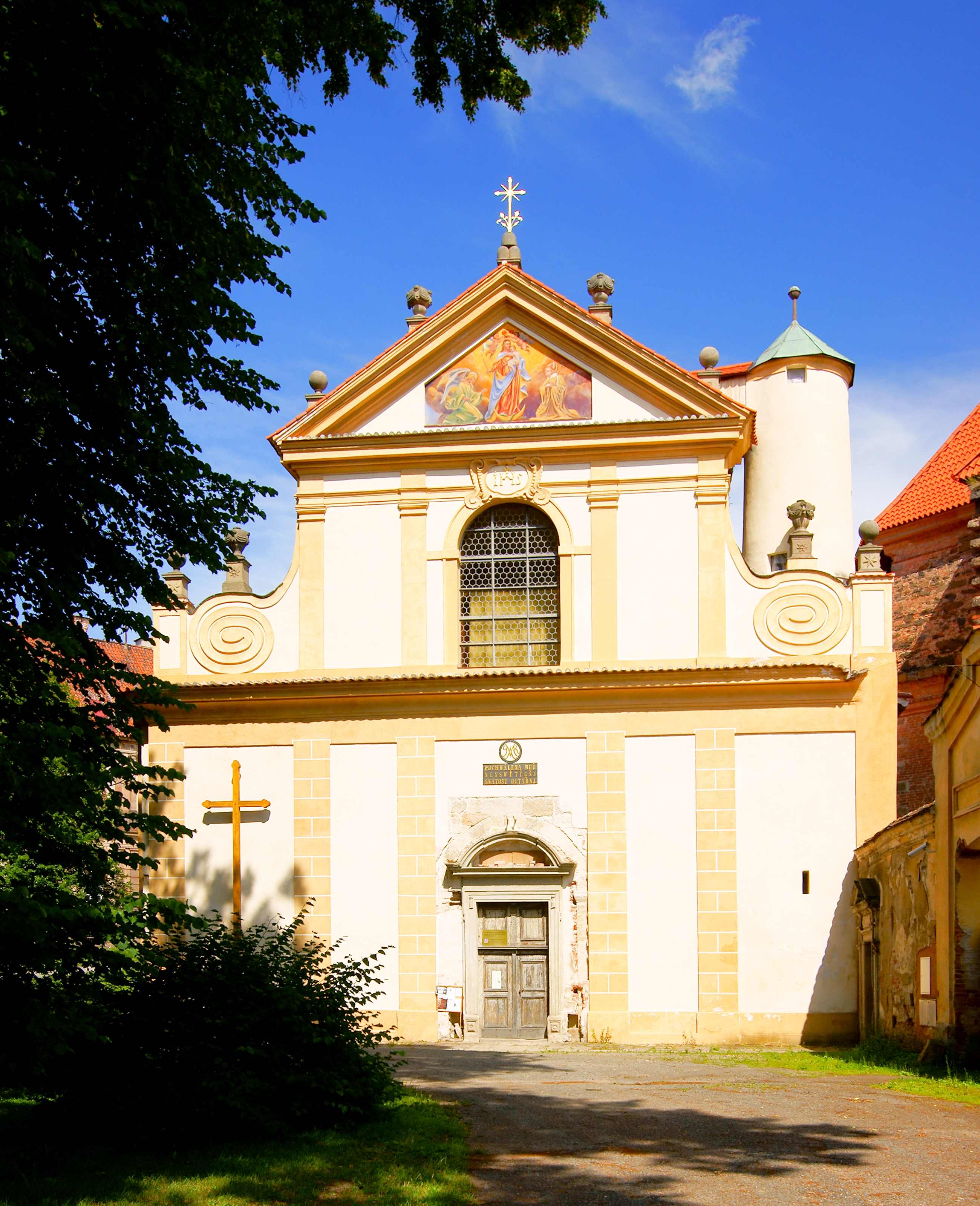 Plasy (Czech Republic), Cistercian monastery, church.